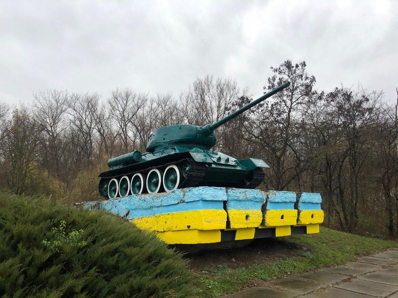 Tank Т-34, city Chortkiv (Ternopil Oblast)